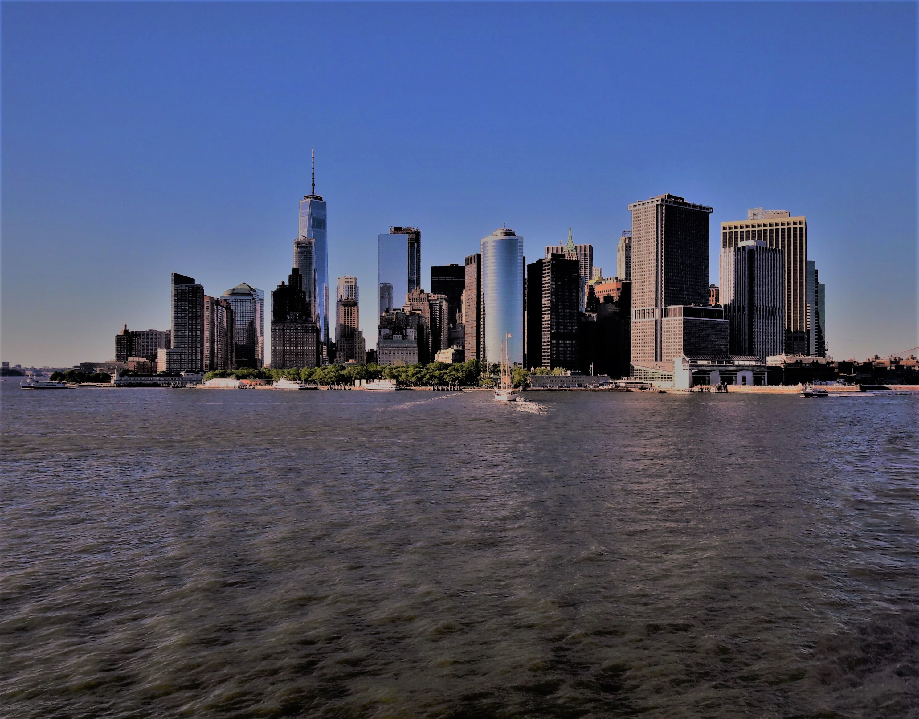 Picture of the New York City Manhattan Skyline taken from aboard Staten Island ferry.